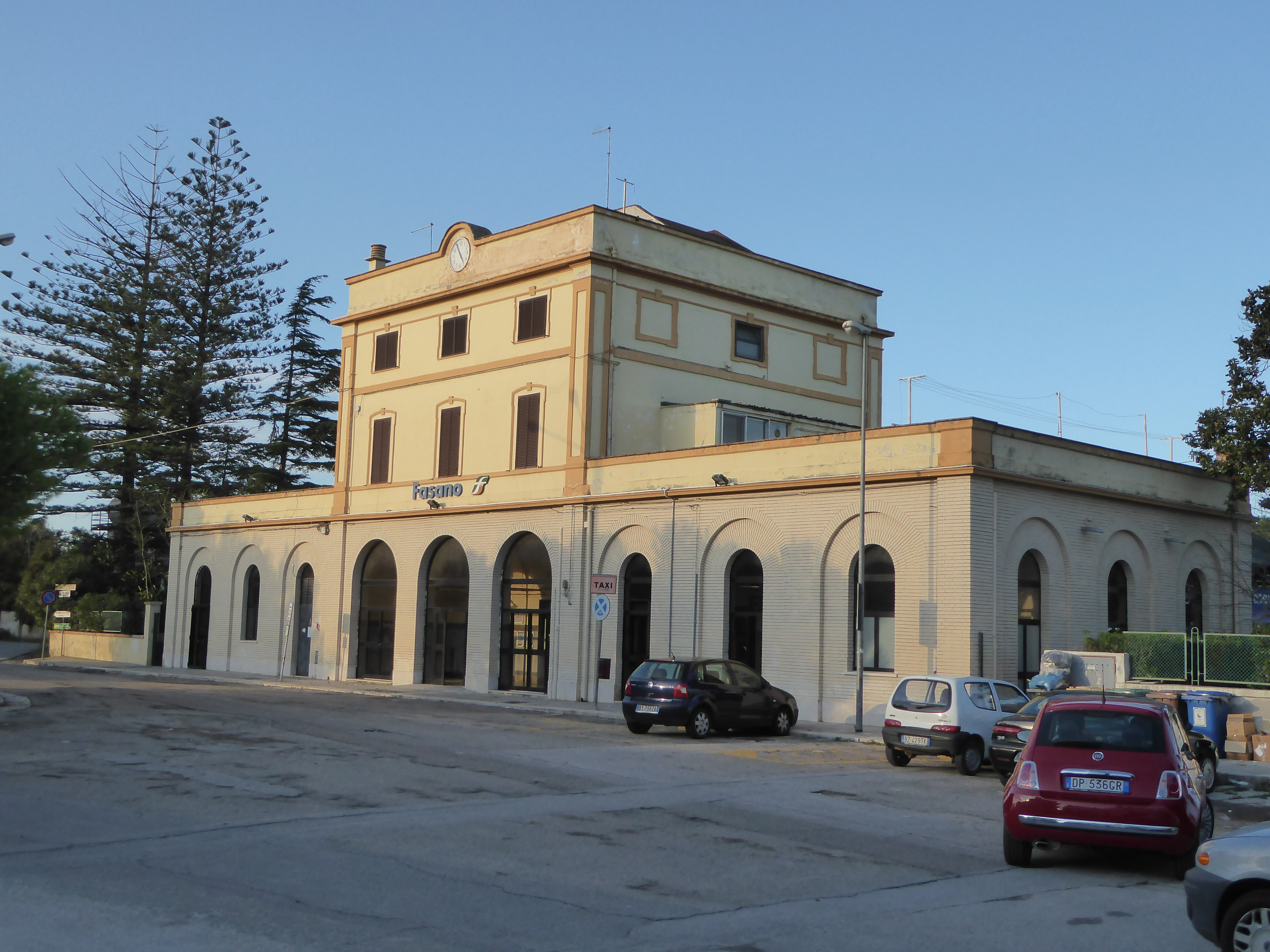 Fasano train station